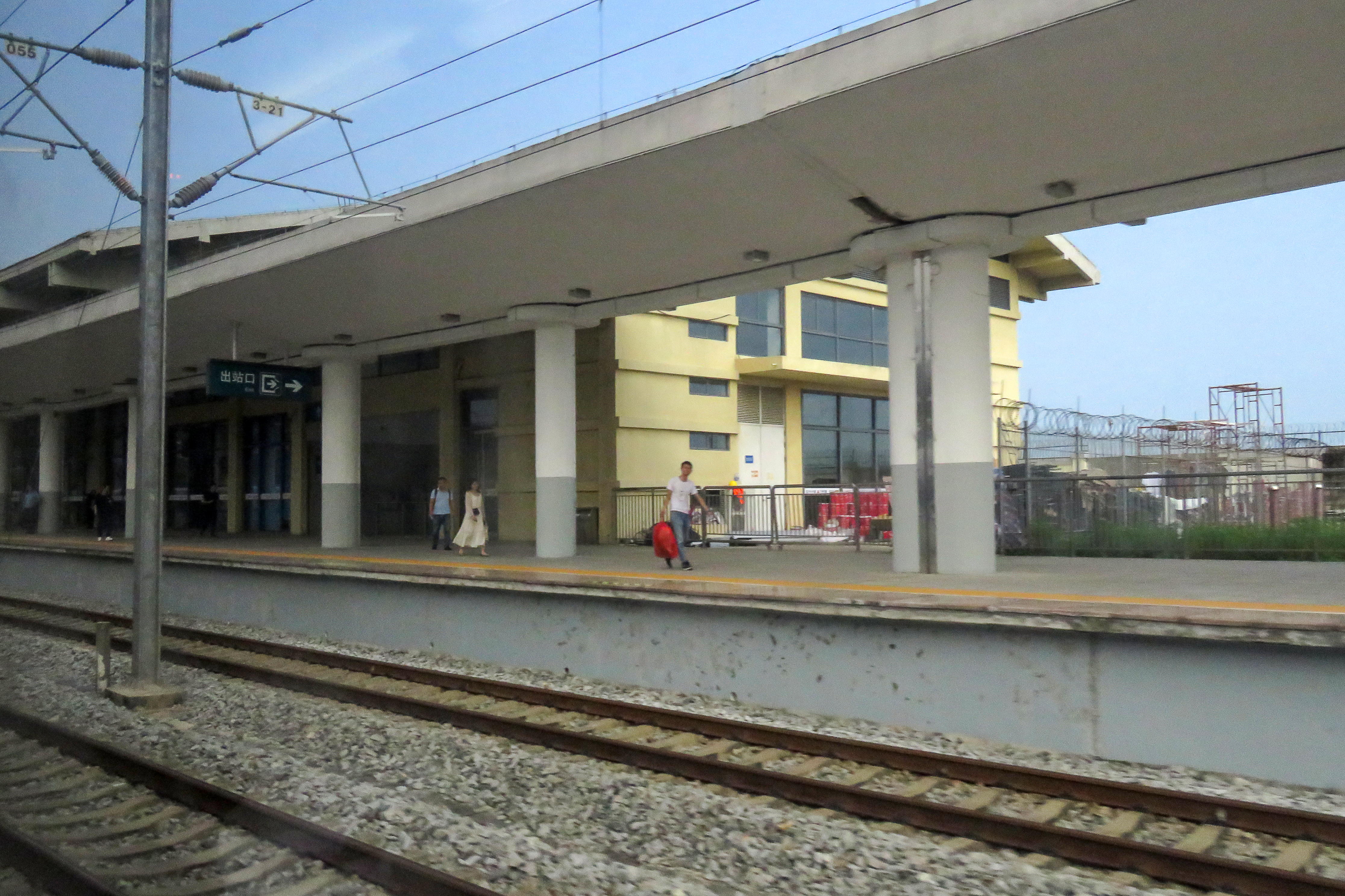 Then there's an idea from Qianmen to Houmen... a pun.